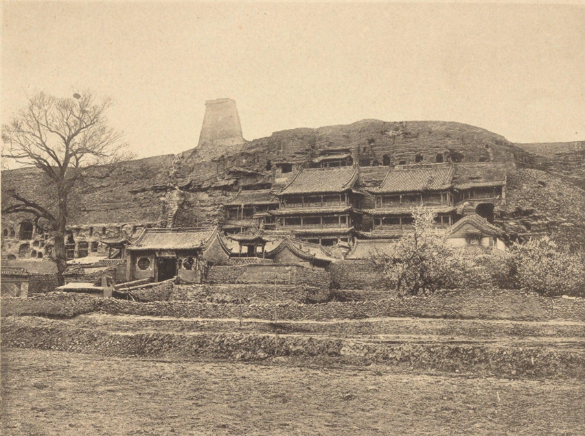 Photograph of the Shifo Temple (石佛寺). from Volume I of Cultural monuments of China (支那文化史跡) which was published in May 15th 1939